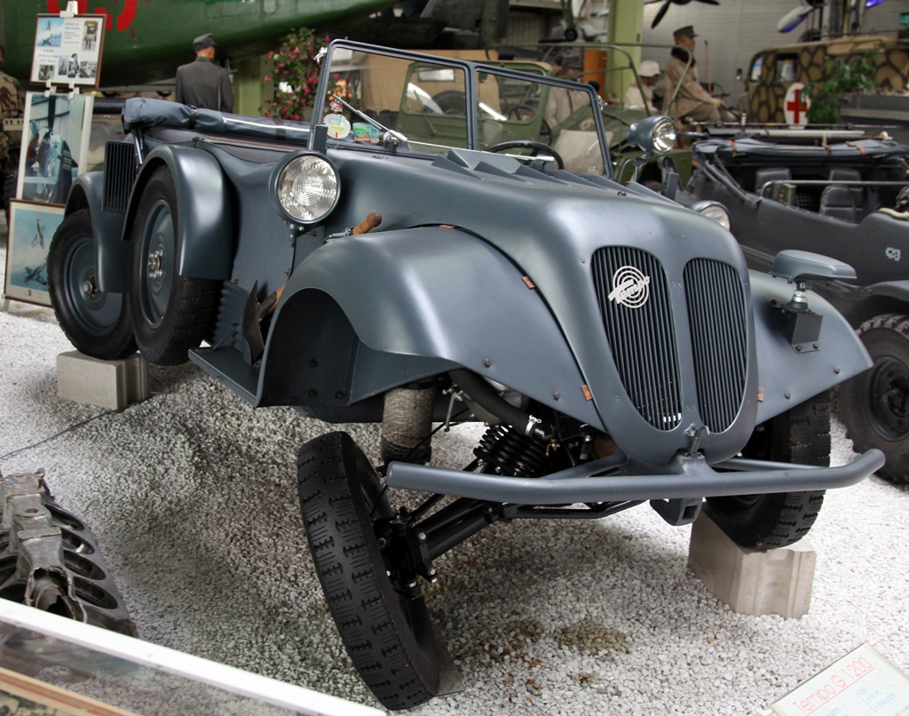 Restored G 1200 w/dual 0.6l engine from 1936 in Sinsheim Museum